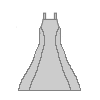 Princess Line Dress